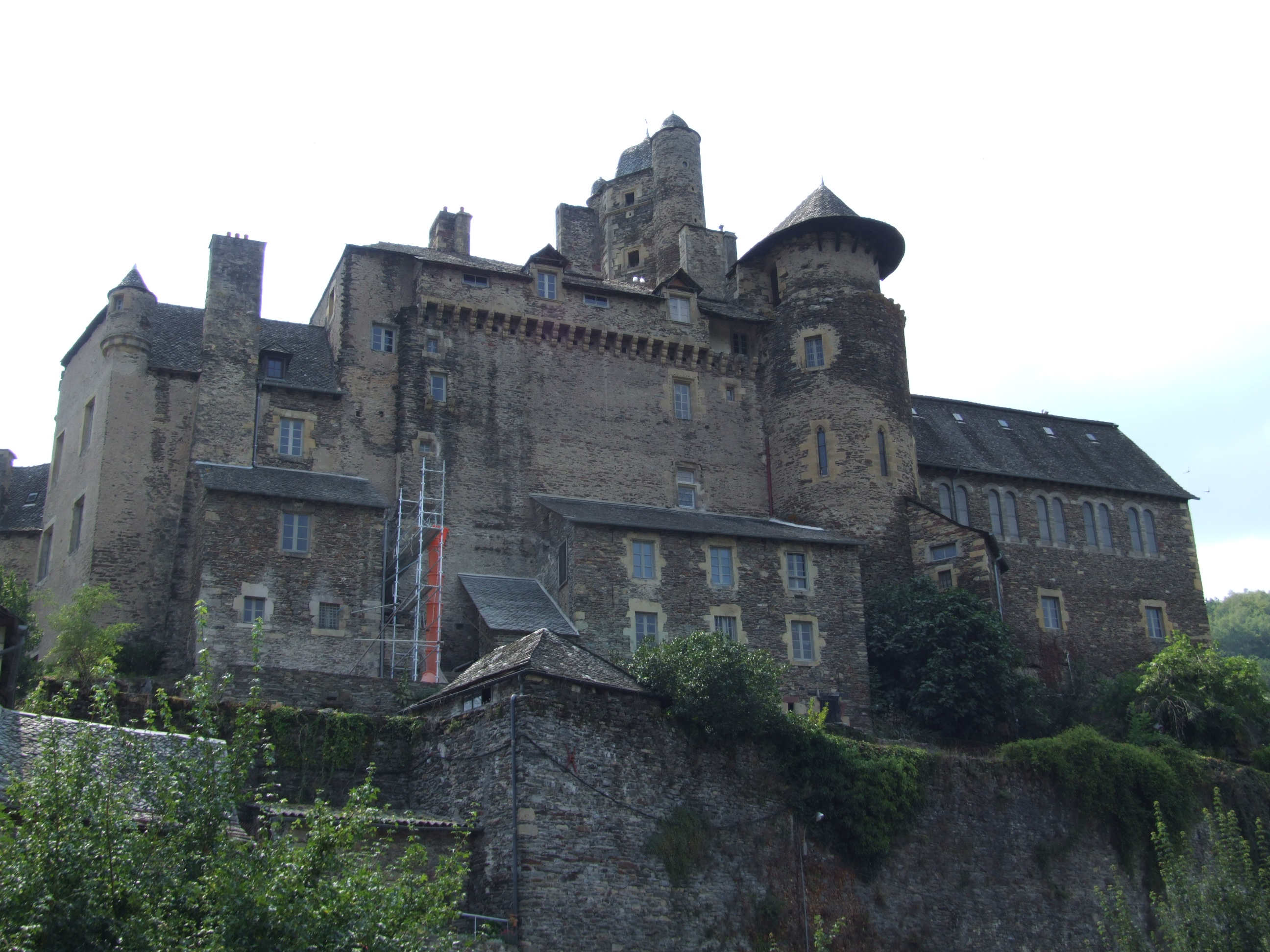 Estaing, Aveyron, FRANCE